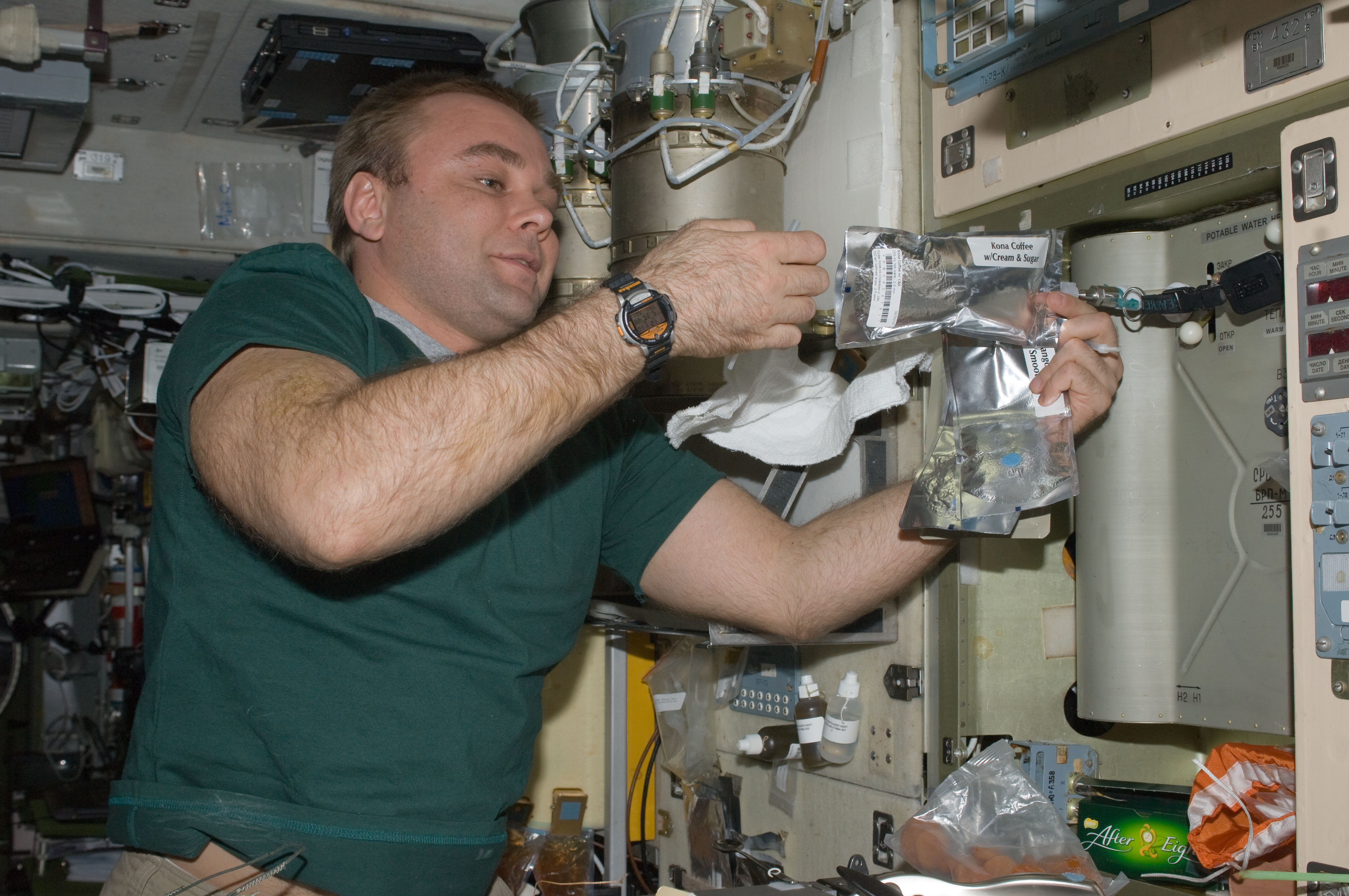 Russian cosmonaut Maxim Suraev, Expedition 22 flight engineer, adds potable water to a soft beverage container at the galley in the Zvezda Service Module of the International Space Station.